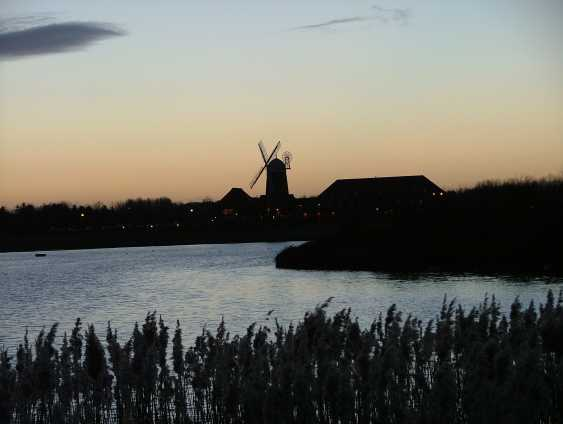 Information Image depicting Caldecotte Lake, Milton Keynes.Taken by Walton_monarchist89, 16th February 2004. I agree to release it into the public domain.